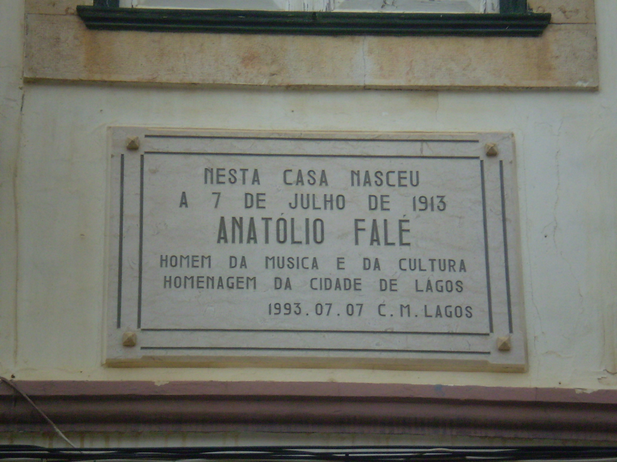 Commemorative plaque, in memory of Anatólio Falé, music and composer that was born in Lagos (Portugal). This plaque is situated outside the house where he was born, in Largo do Convento Sra. da Graça.